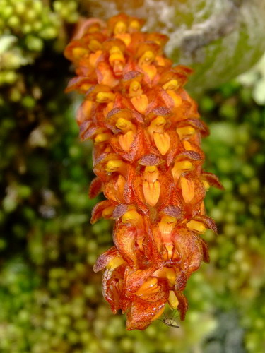 Bulbophyllum wangkaense in full bloom.